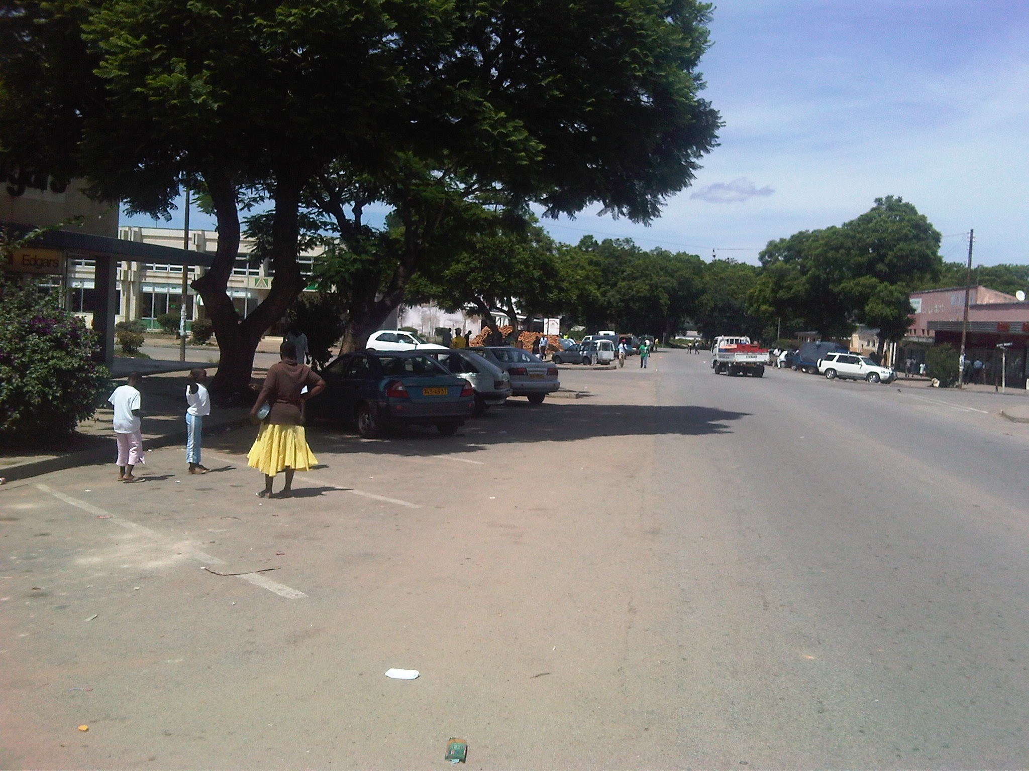 Heart of the Rusape Town, the main street shown is Highway to Nyanga